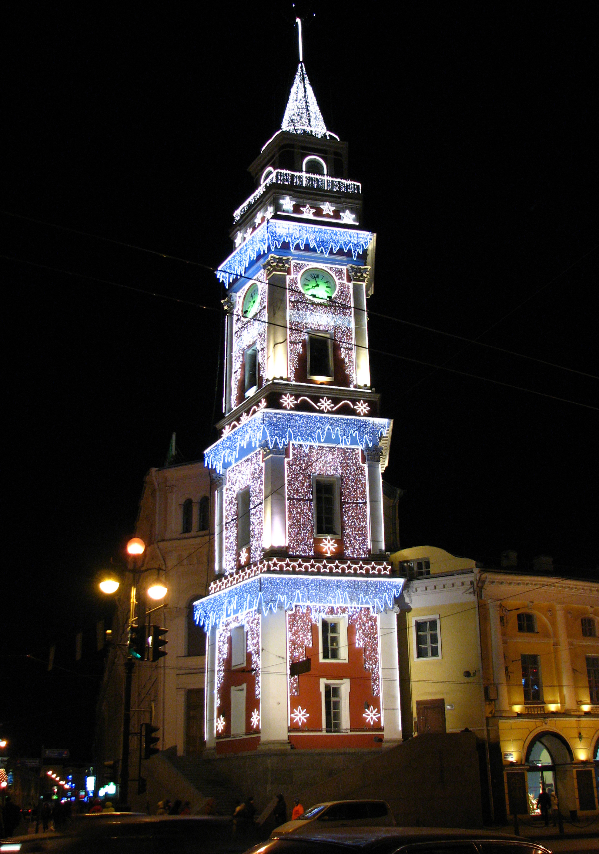 Saint Petersburg. Christmas lighting on the Nevsky Prospekt. City Duma Tower.